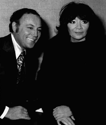 singers Claudio Villa and Juliette Greco, concert for Unicef, Turin